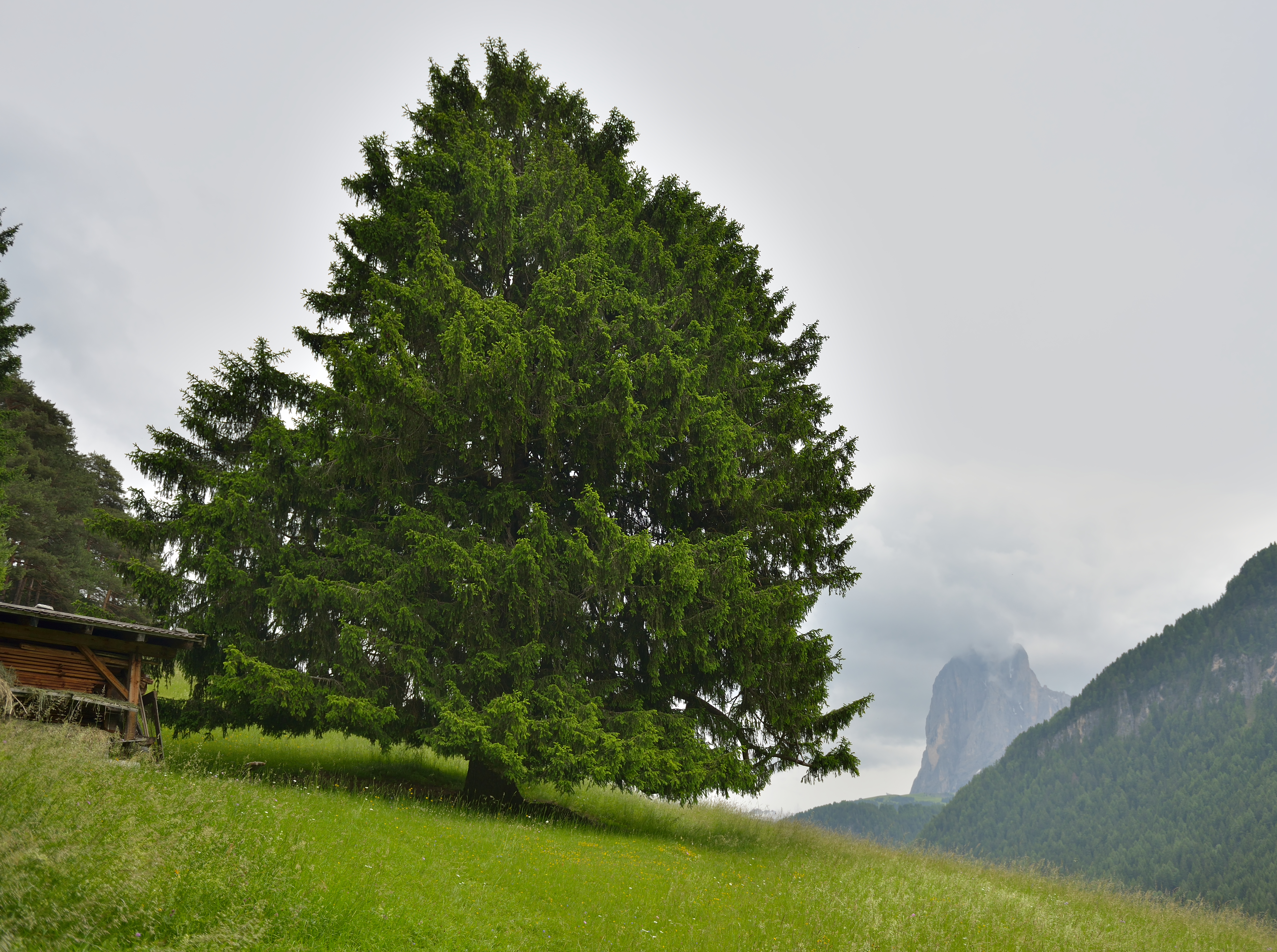 (Picea abies) in Urtijëi - South Tyrol - Ladin "Pëc"